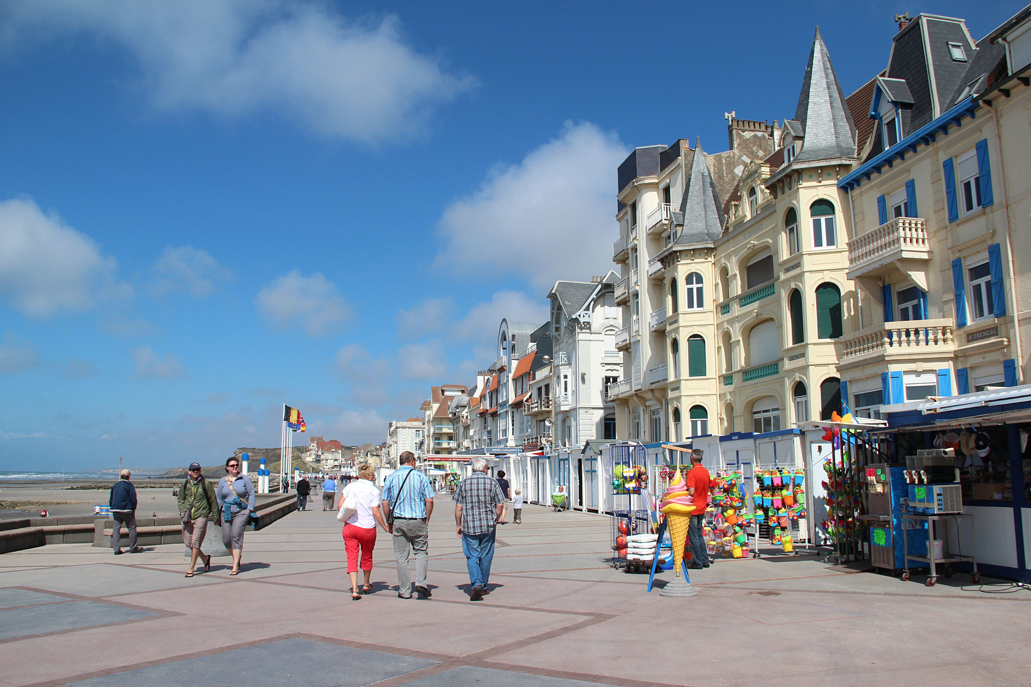 The Digue Promenade Michel Hamiot (Beach promenade) in Wimereux, Pas-de-Calais (France).